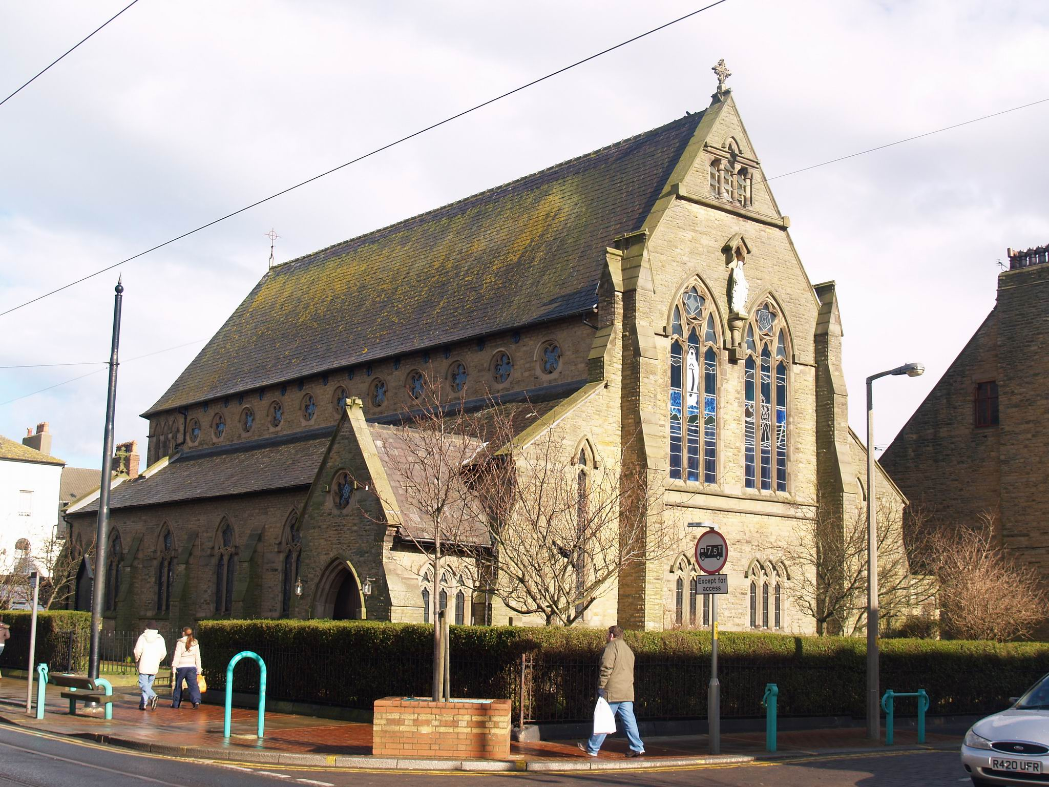 St Mary's Roman Catholic church, Lord Street, Fleetwood, Lancashire, England, seen from the west. In 1996 the church was used in "A High Profile", an episode of Hetty Wainthropp Investigates.